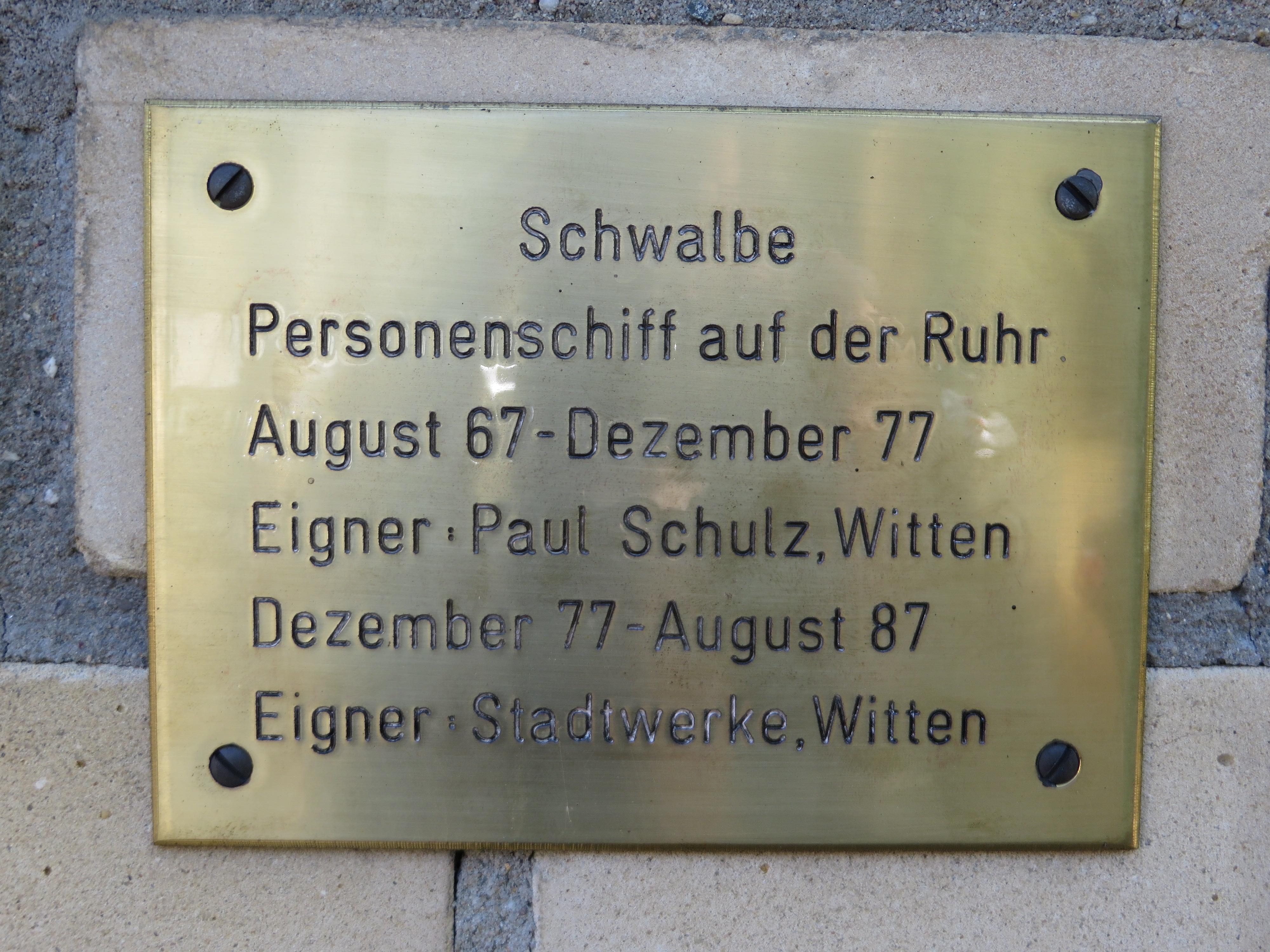 Info board Schwalbe in Witten, Germany